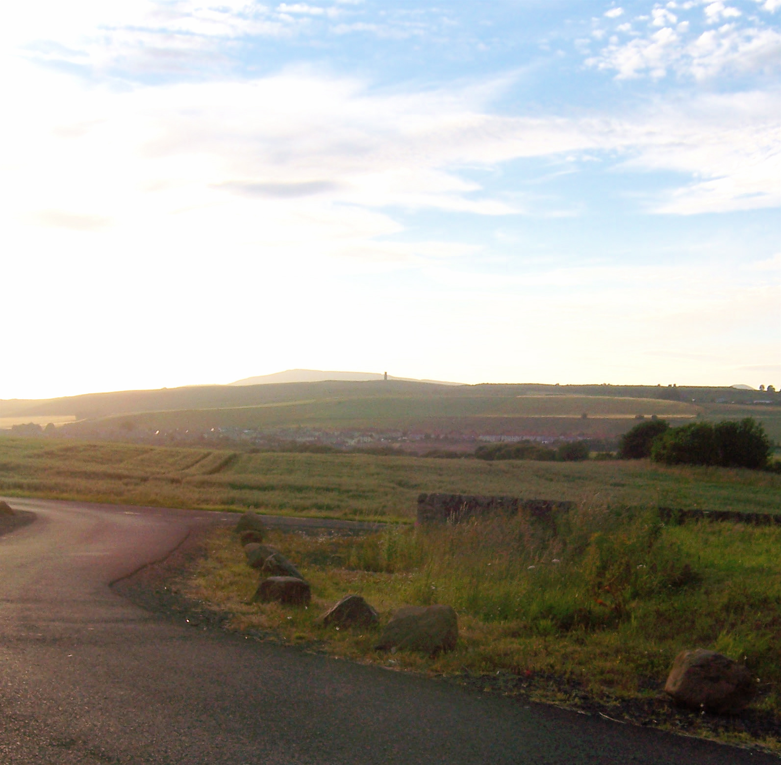 Blythe's Tower atop Redwells Hill, Kinglassie lies below in the valley. The Picture is taken from the B922 to the south of the village.